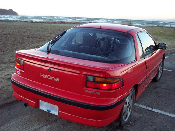 created by